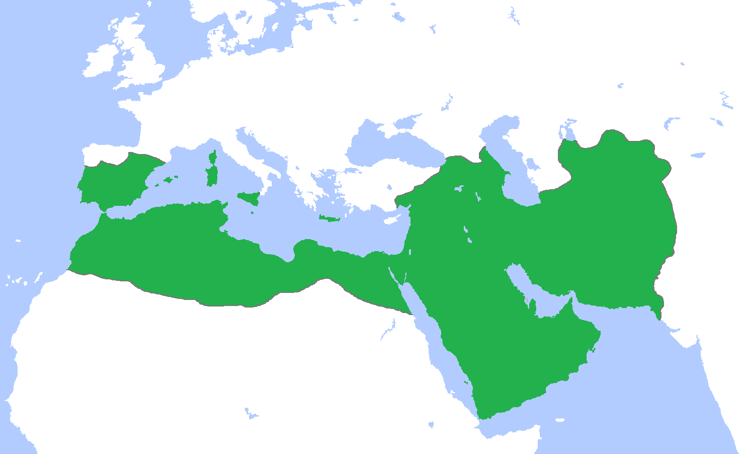 Map of the Arab/Islamic world at its greatest extent, c. 850. (Partially based on Atlas of World History (2007) - Progress of Islam, map)